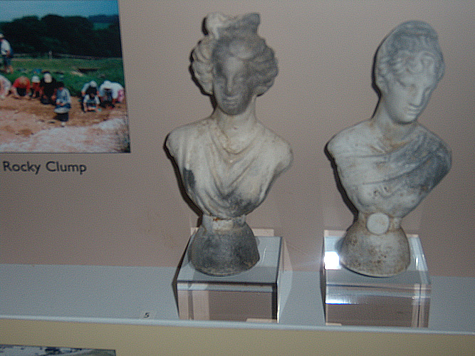 Two Roman busts found at a burial next to the Roman villa at Springfield Road; Brighton